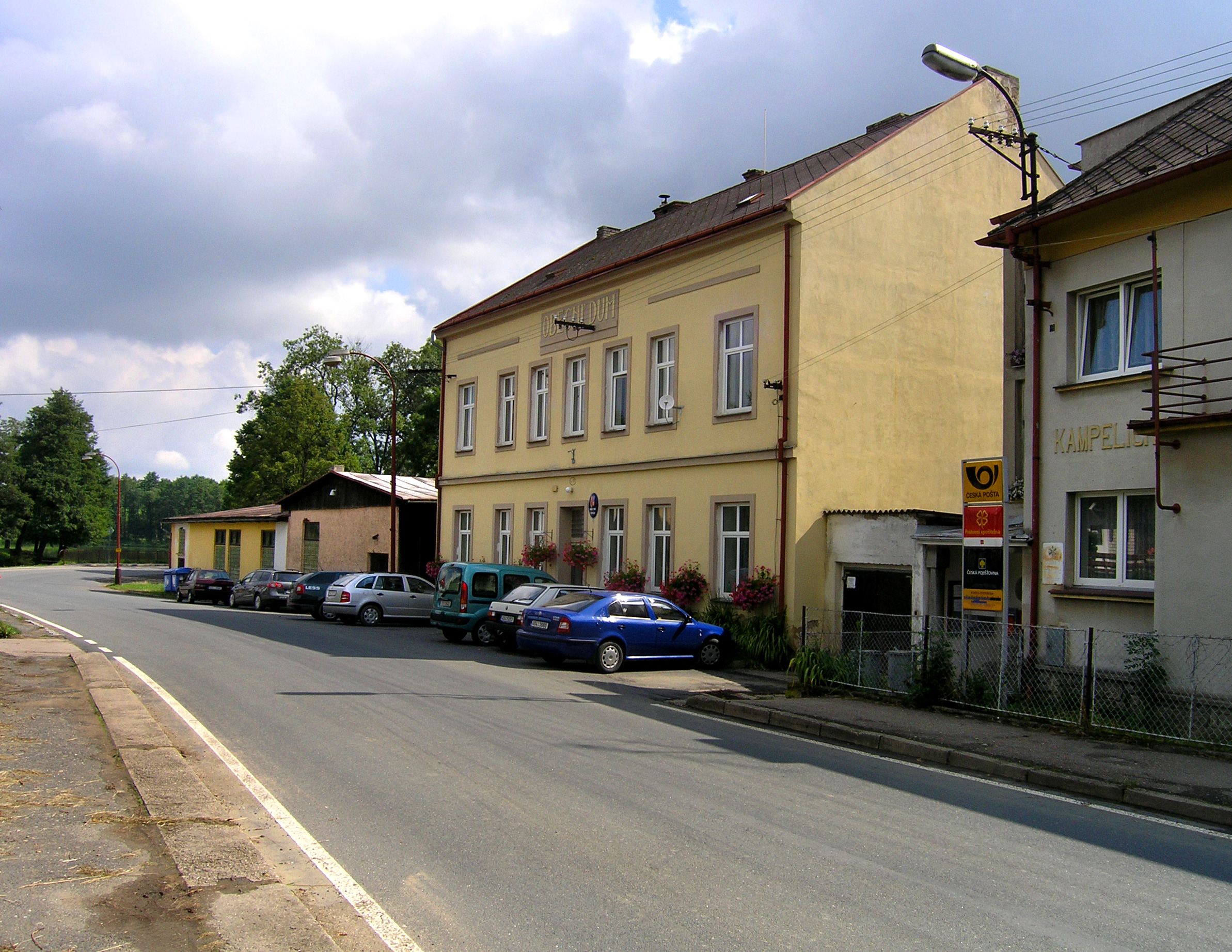 Municipal office in Bohdaneč, Czech Republic